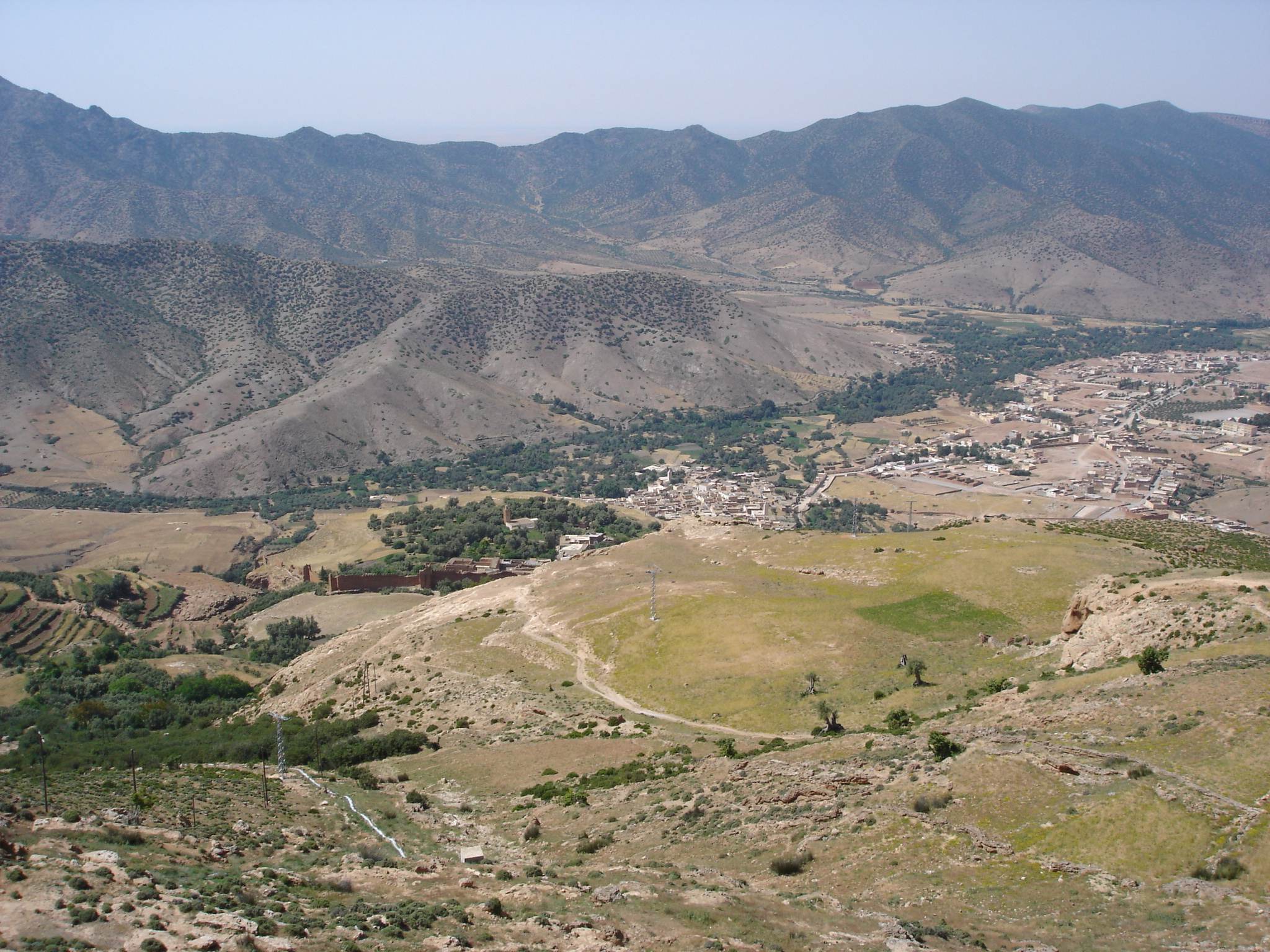 The global view of Debdou village in Morocco oriental from the Aïn Tafrant. At the left the Kasbah of Marinid.